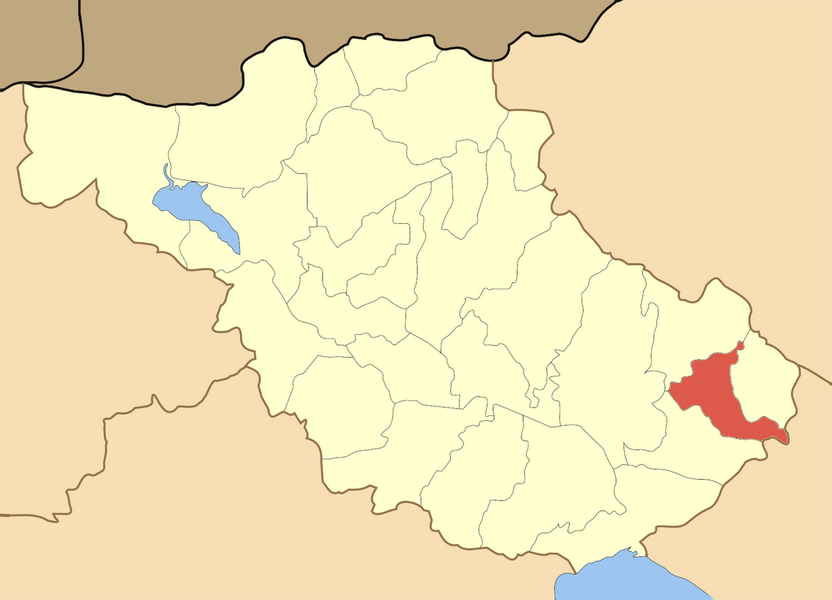 Locator map of Protis municipality in Serres perfecture in Greece.